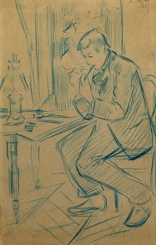 Autoportrait, pencil on paper